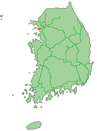 Korea Railroad Gyeongin Line (Guro - Incheon)